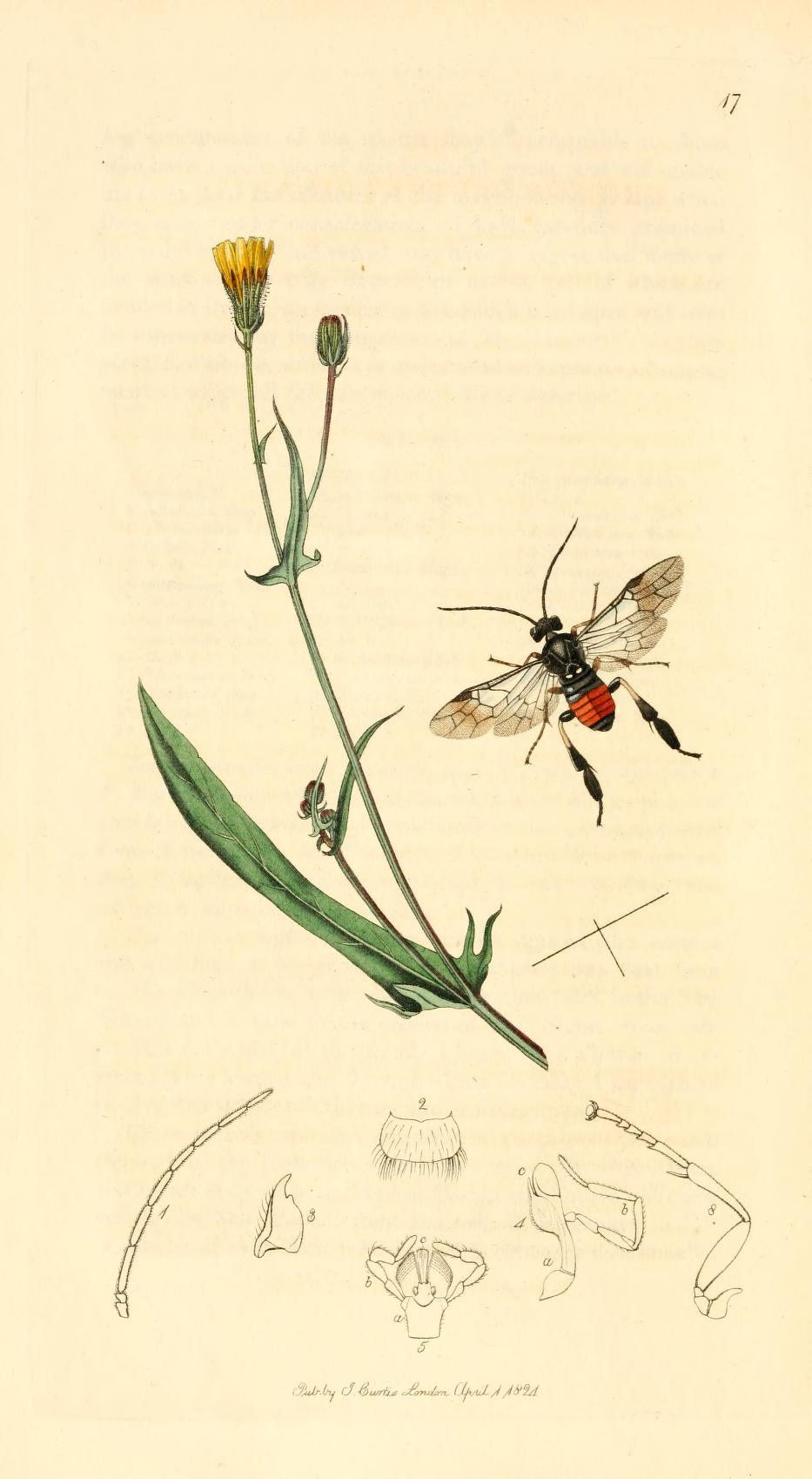 An illustration from British Entomology by John Curtis. name Hymenoptera: Croesus septentrionalis (Flat-legged Tenthredo).The plant is Crepis sp. (Crepis tectorum, Smooth Hawk’s-beard)